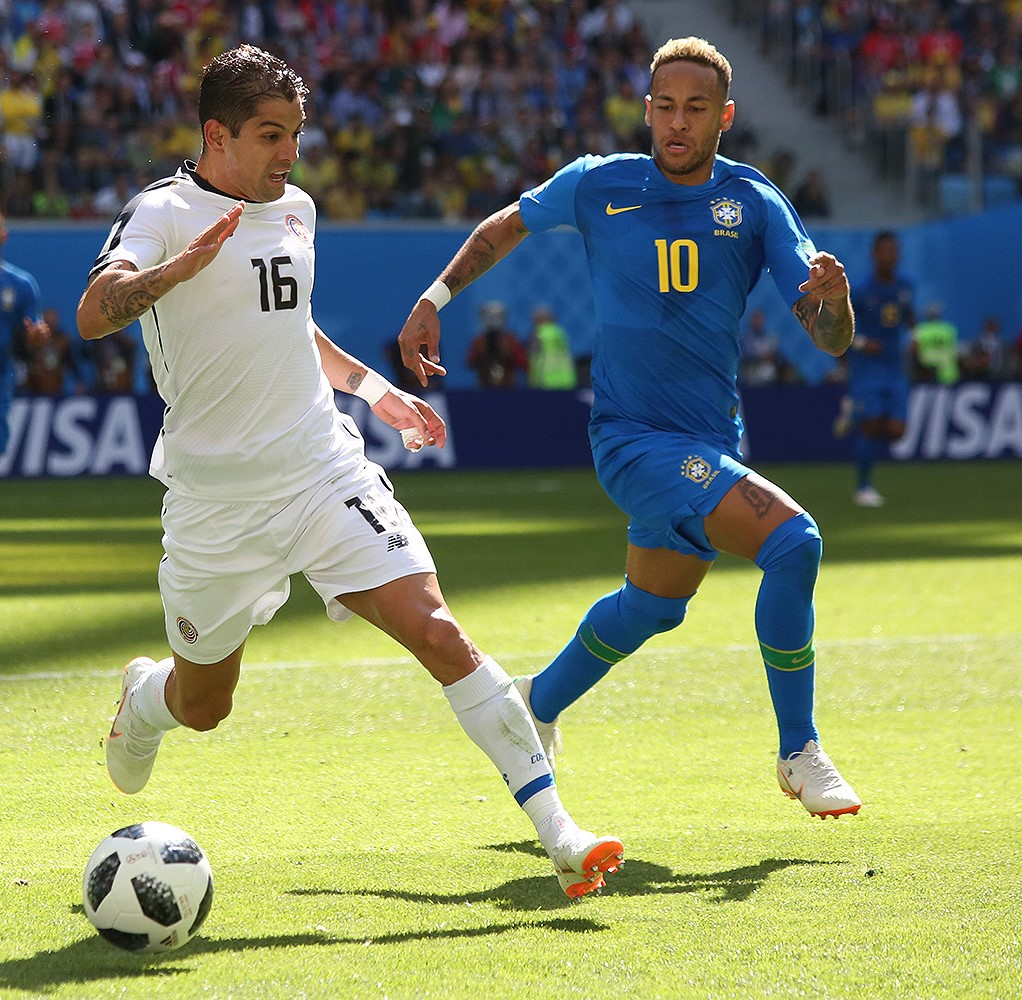 Neymar, Cristian Gamboa